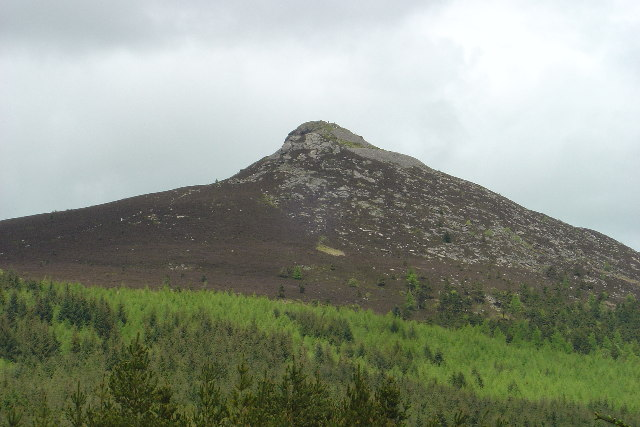 Mither Tap from the South. The Mither Tap of Bennachie is a spectacular outcrop of rock that holds evidence of having been an iron-age fort, and can be seen from miles around. This is perhaps one of the less common views of the top, taken from the forest tracks to the south of the hill, but it is no less impressive from this angle.